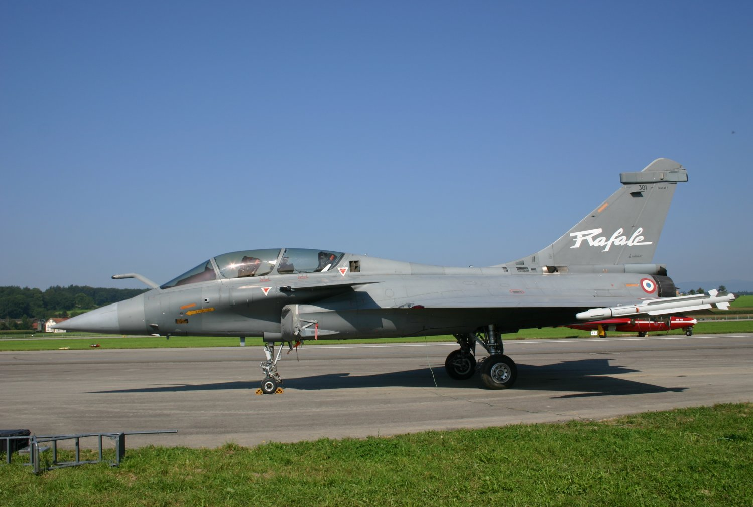 A parked Dassault Rafale